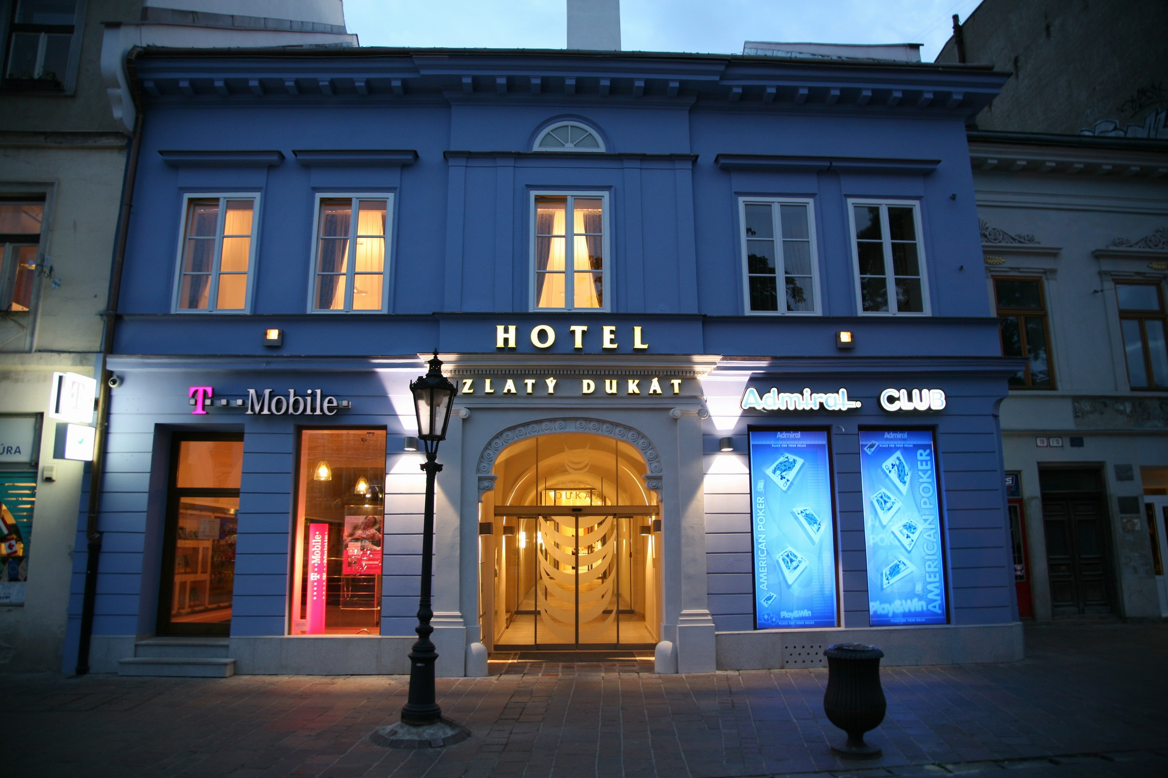 The building Zlaty Dukat in present